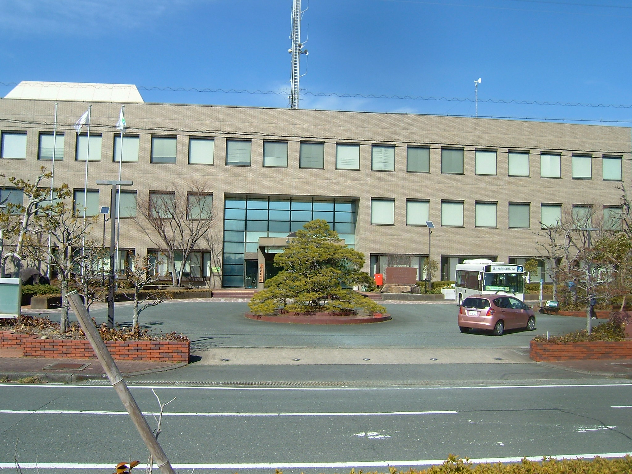 袋井市市役所、元浅羽町役場、２００５年平成の大合併の時合併相手を選ぶのに袋井、磐田、掛川、独立派と４分裂した時浅羽議長であった久保田龍平氏の理性ある判断と根回しで袋井市への合併に導いた、歴史的場所